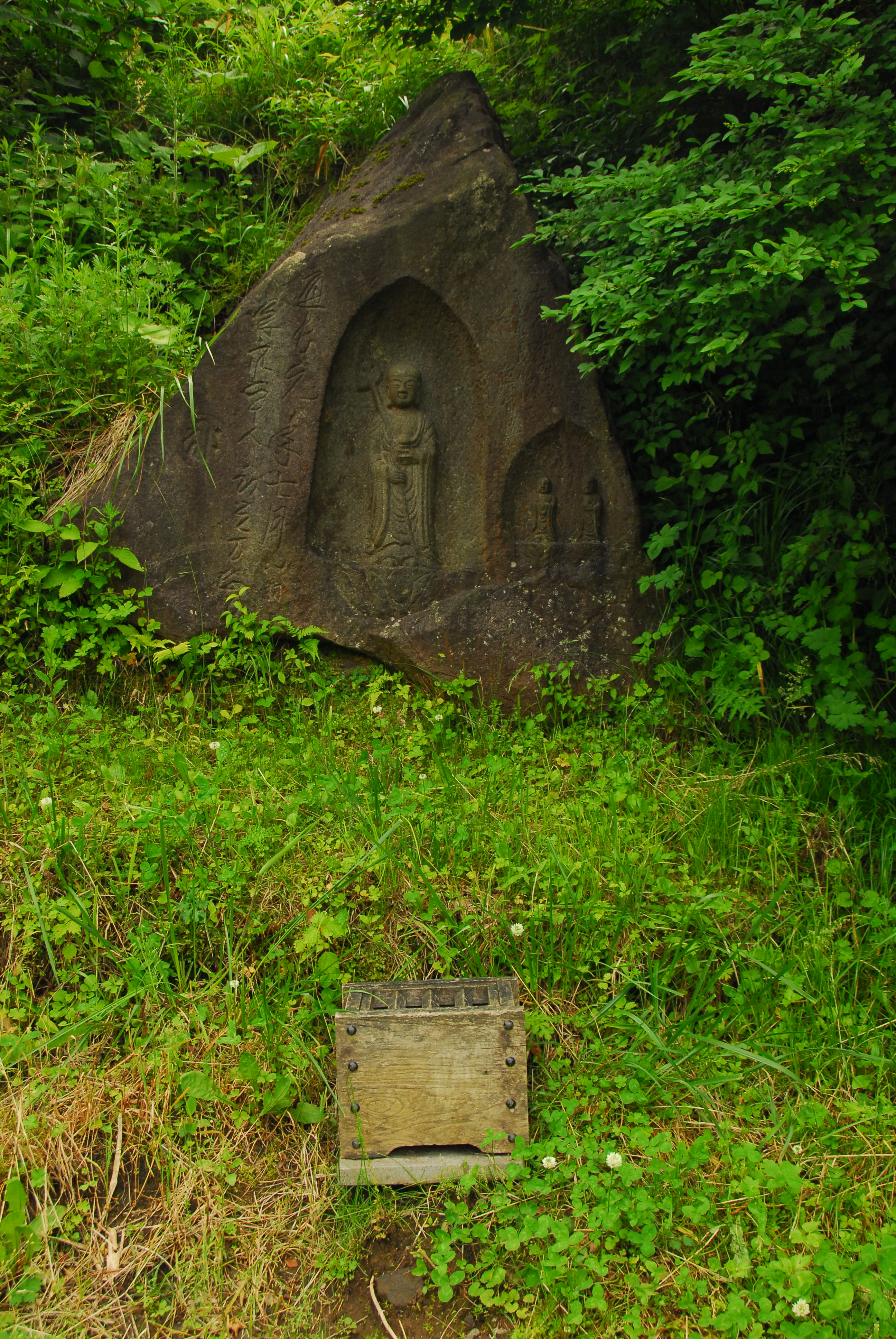 Moto-Hakone Stone Buddhas (元箱根石仏群, Moto-Hakone sekibutsu)